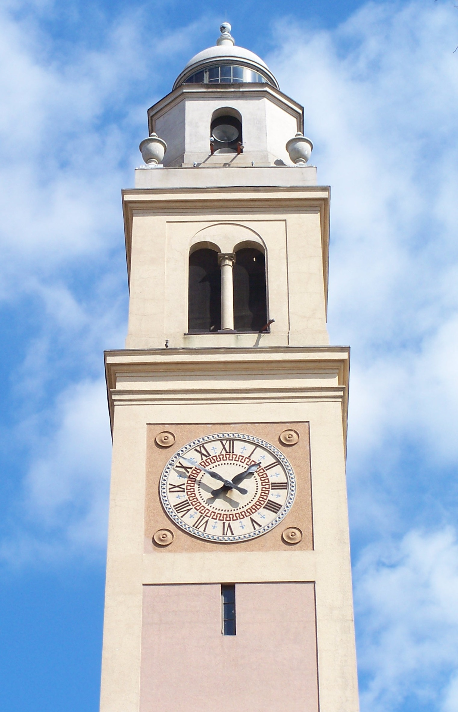 Louisiana State University Memorial Tower